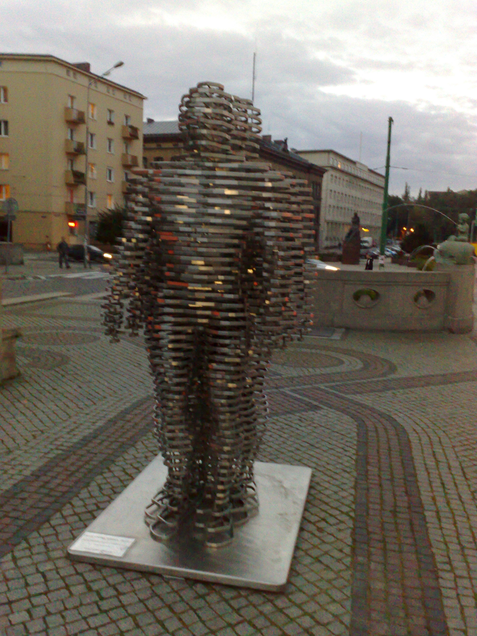 Golem Monument in Poznan(David Cerny sculptor).